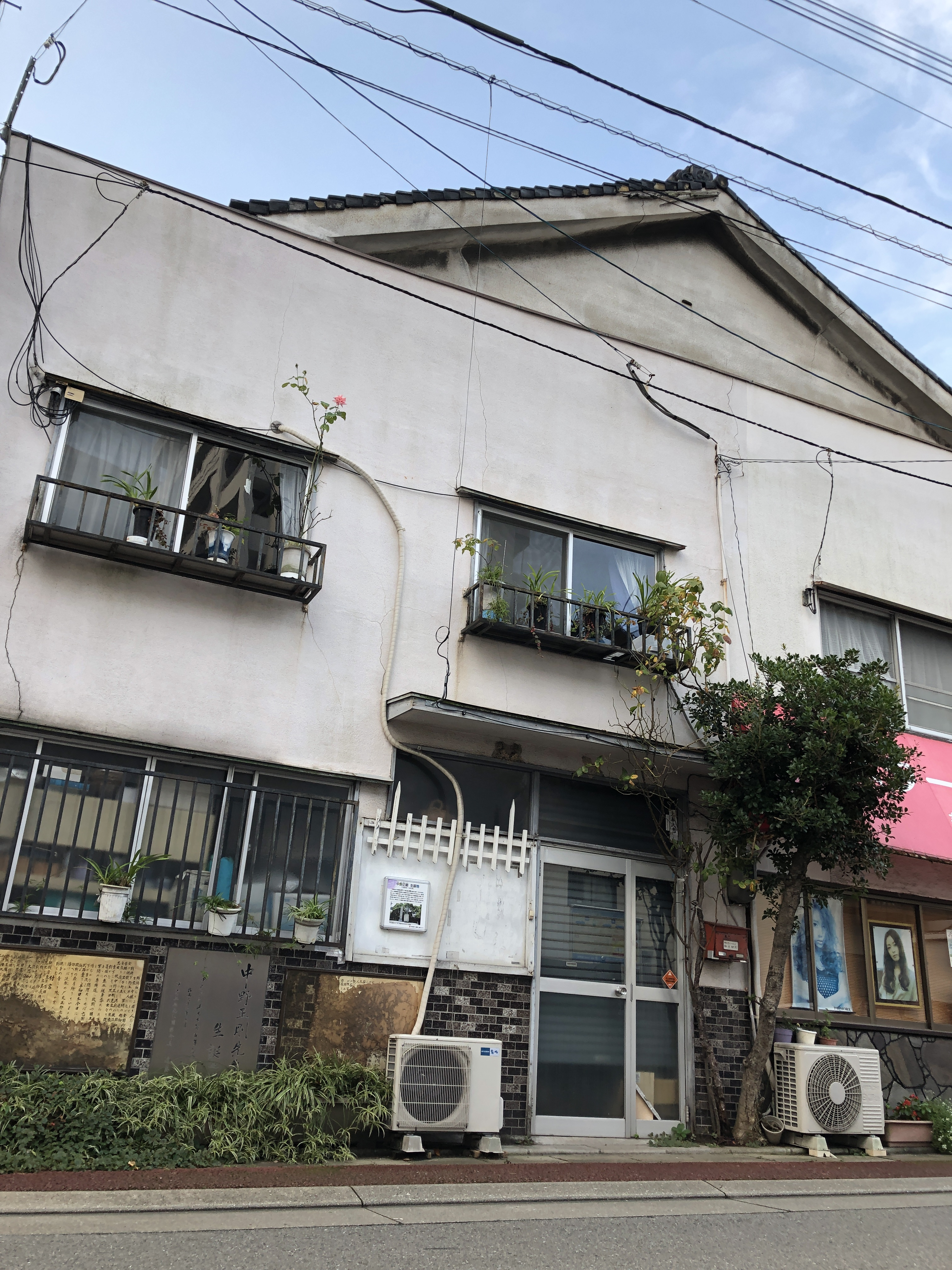 Birthplace of Nakano Seigō (1886-1943) in Fukuoka (Japan)